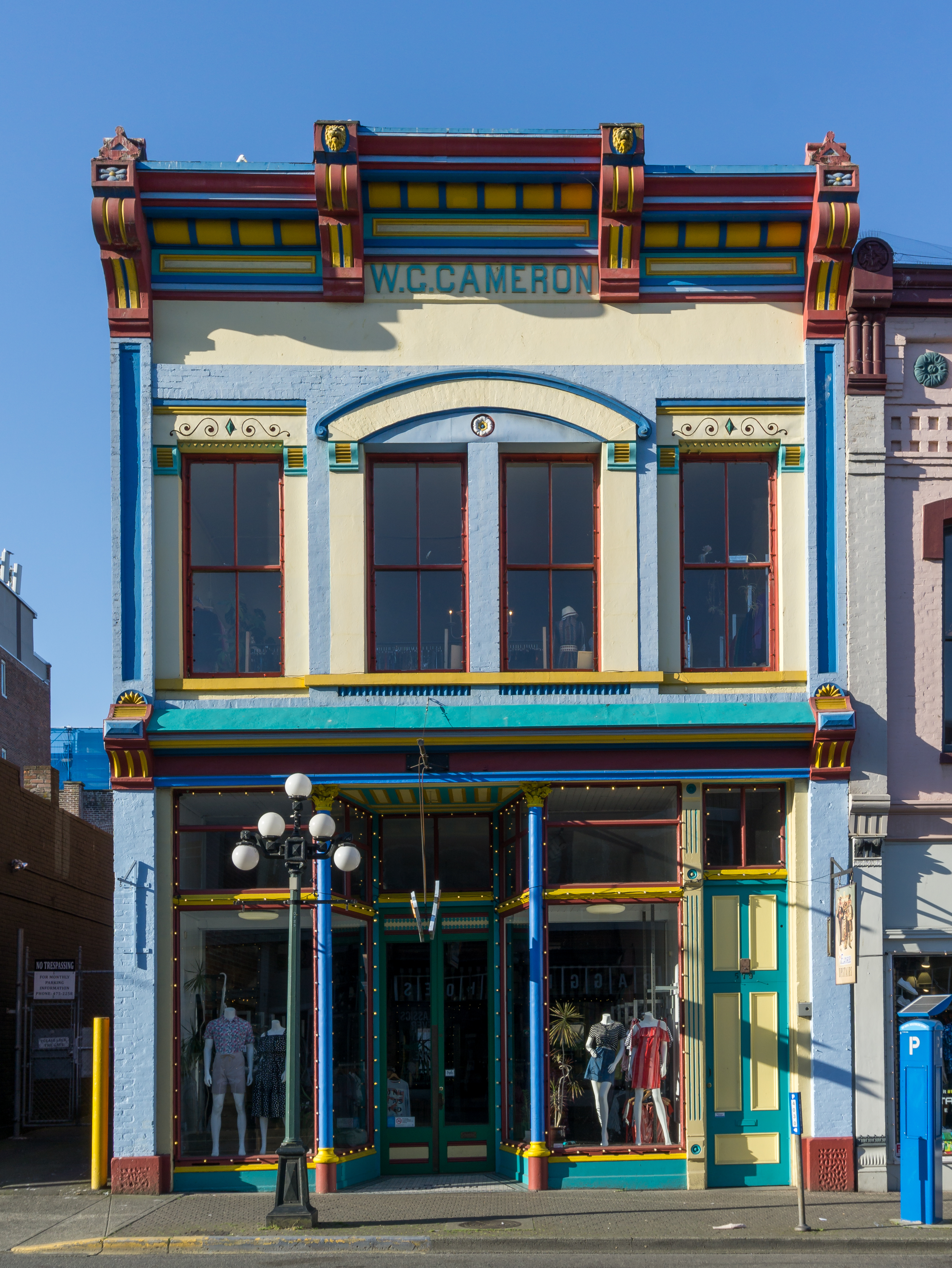 W.G. Cameron Building, Victoria, British Columbia, Canada